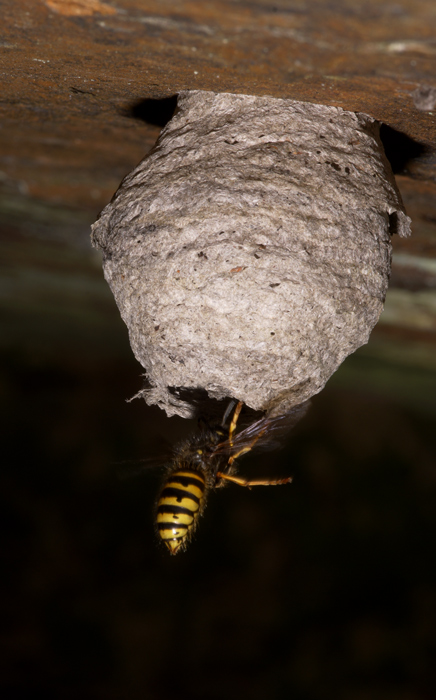 Queen of common wasp (Vespula vulgaris) entering nest.